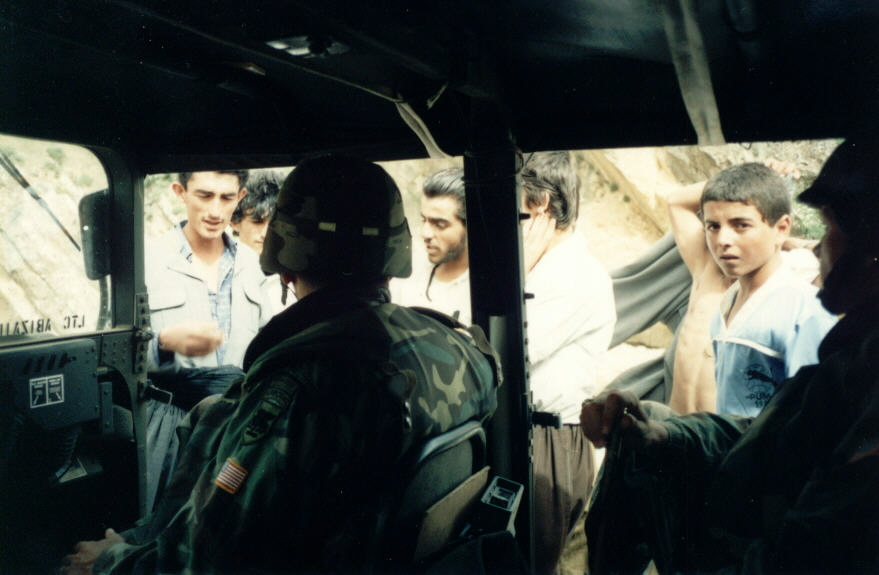 Scan of personal photo. Taken in N. Iraq in 1991 during Operation Provide Comfort. Lt. Col. John Abizaid (L) speaking with some Kurds.